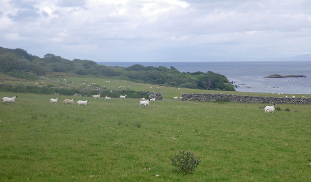 Sheep grazing on the coastal terrace on the Ardtalla Estate, near to Ardtalla, Argyll And Bute, Great Britain.